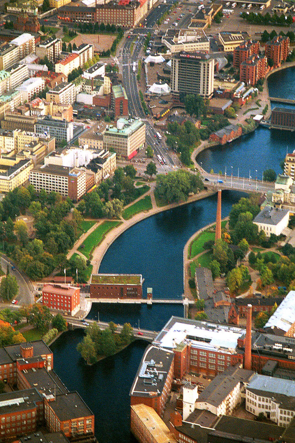 Tammerkoski in Tampere, Finland from air